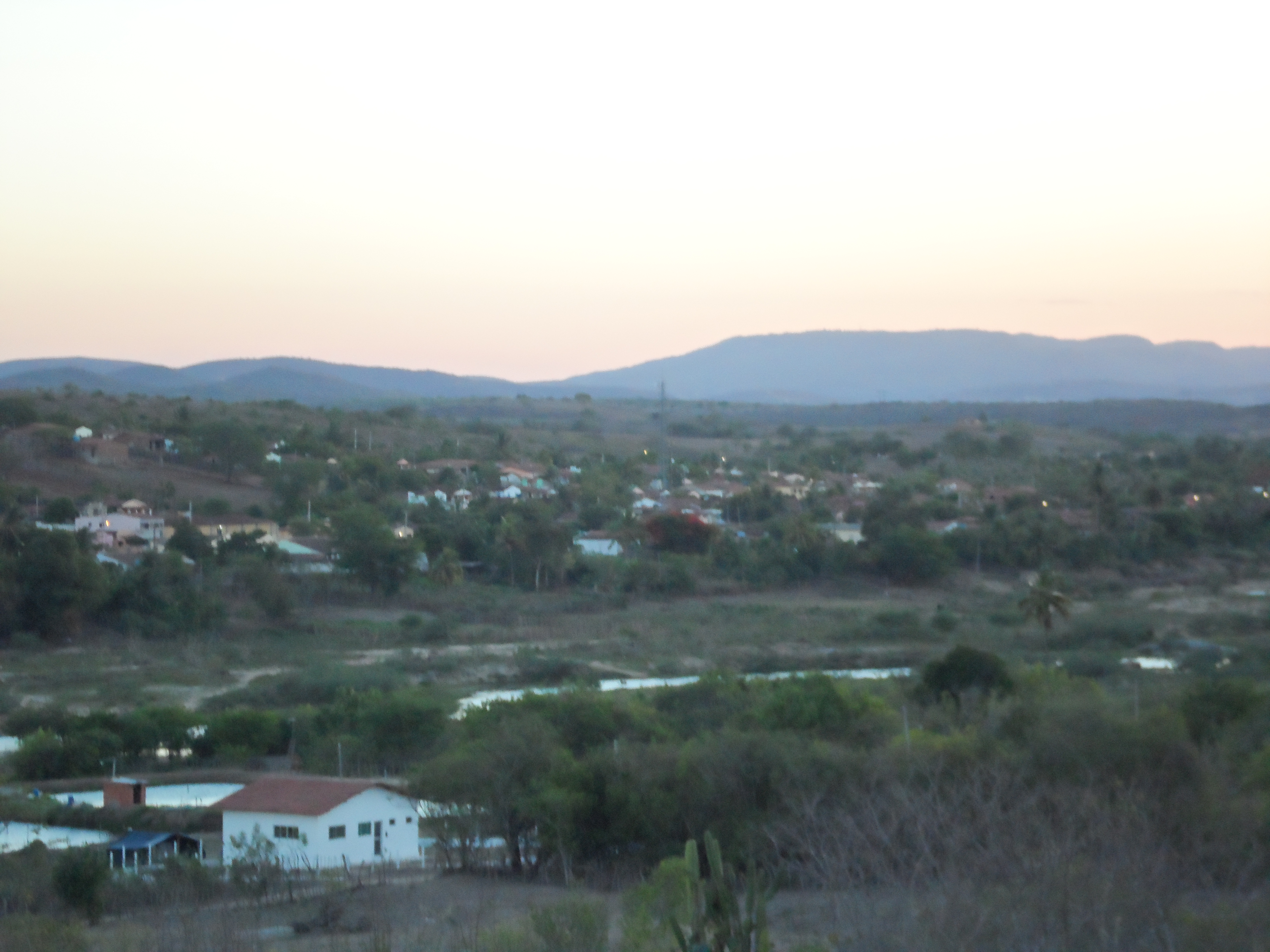 Dois Riachos View